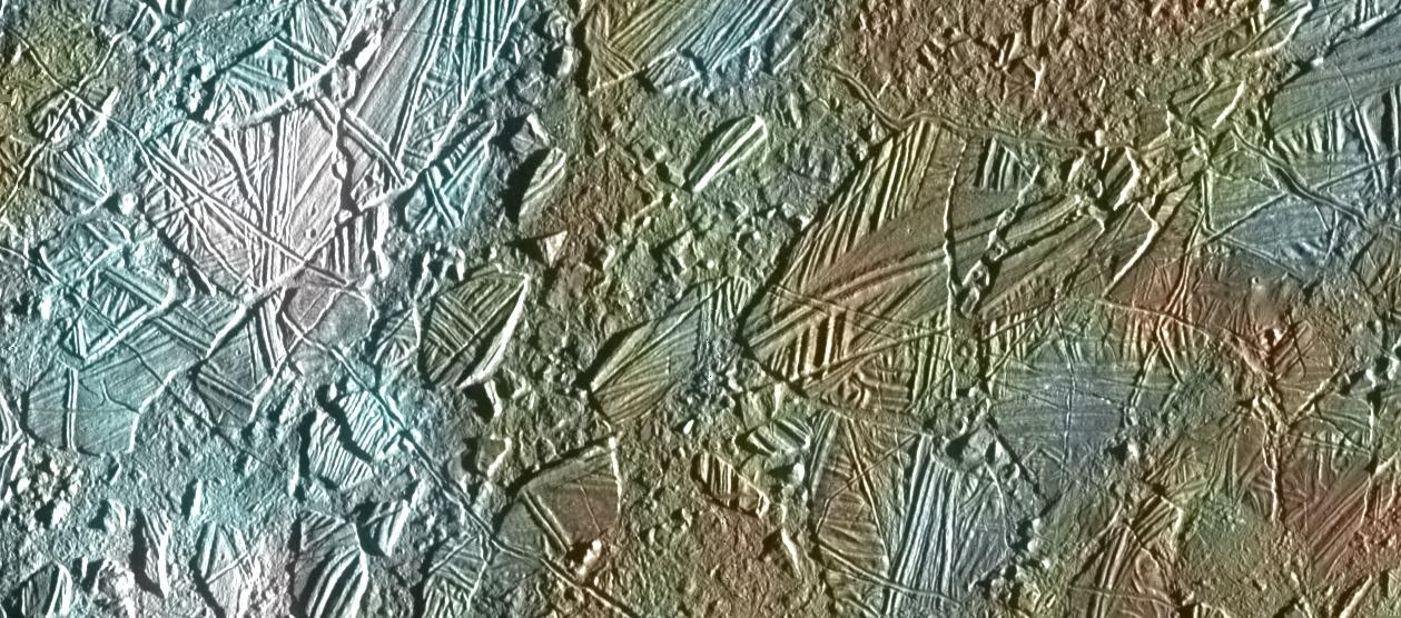 View of a small region of the thin, disrupted, ice crust in the Conamara region of Jupiter's moon Europa showing the interplay of surface color with ice structures. The white and blue colors outline areas that have been blanketed by a fine dust of ice particles ejected at the time of formation of the large (26 kilometer in diameter) crater Pwyll some 1000 kilometers to the south. A few small craters of less than 500 meters or 547 yards in diameter can be seen associated with these regions. These were probably formed, at the same time as the blanketing occurred, by large, intact, blocks of ice thrown up in the impact explosion that formed Pwyll. The unblanketed surface has a reddish brown color that has been painted by mineral contaminants carried and spread by water vapor released from below the crust when it was disrupted. The original color of the icy surface was probably a deep blue color seen in large areas elsewhere on the moon. The colors in this picture have been enhanced for visibility. North is to the top of the picture and the sun illuminates the surface from the right. The image, centered at 9 degrees north latitude and 274 degrees west longitude, covers an area approximately 70 by 30 kilometers (44 by 19 miles), and combines data taken by the Solid State Imaging (CCD) system on NASA's Galileo spacecraft during three of its orbits through the Jovian system. Low resolution color (violet, green, and infrared) data acquired in September 1996, were combined with medium resolution images from December 1996, to produce synthetic color images. These were then combined with a high resolution mosaic of images acquired on February 20th, 1997 at a resolution of 54 meters (59 yards) per picture element and at a range of 5340 kilometers (3320 miles).